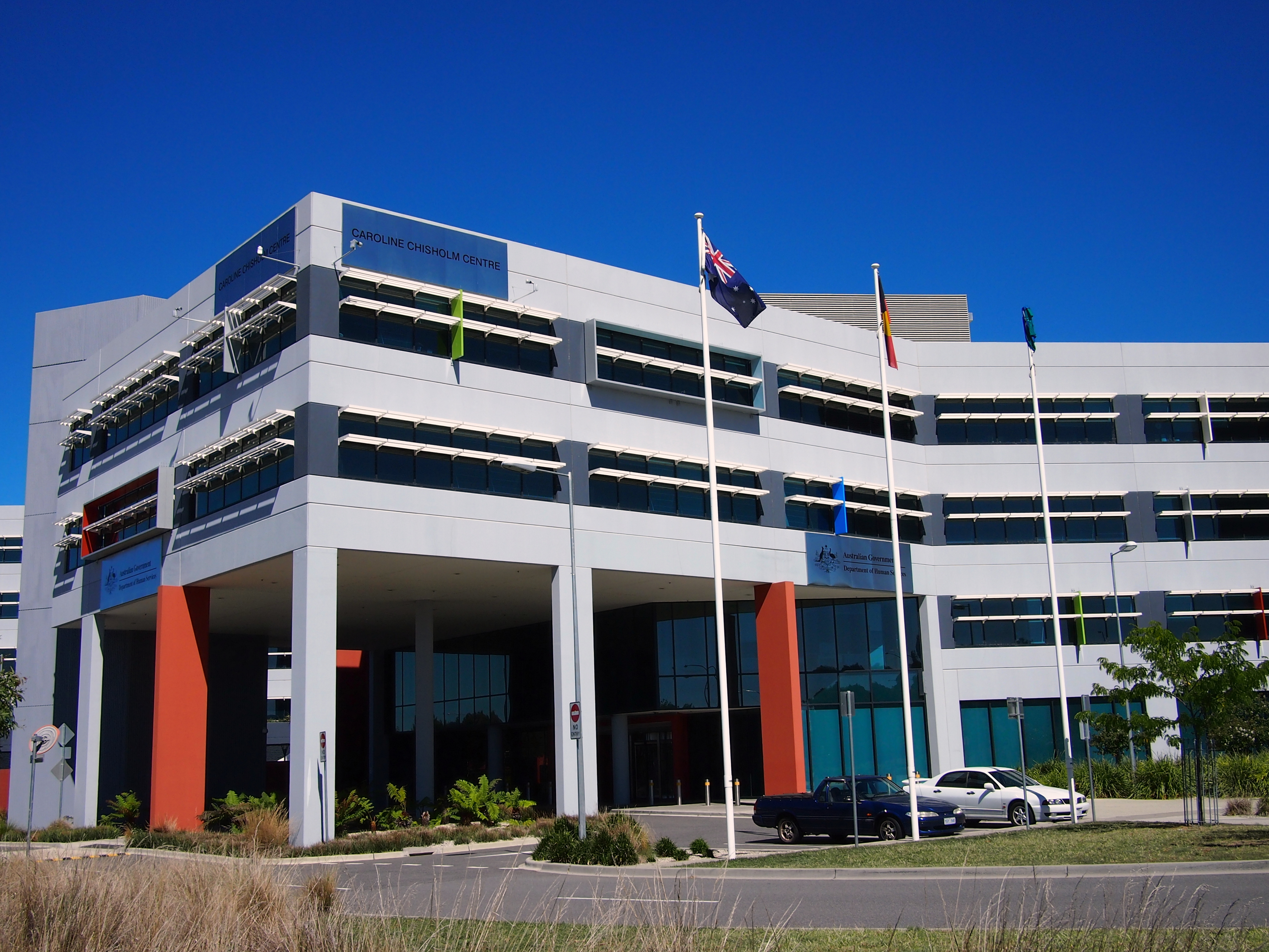 The main entrance of the Caroline Chisholm Centre in Tuggeranong. This building houses Centrelink's national headquarters.